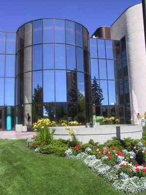 MacEwan Student Centre - Home of the University of Calgary Students' Union, run by and for students.